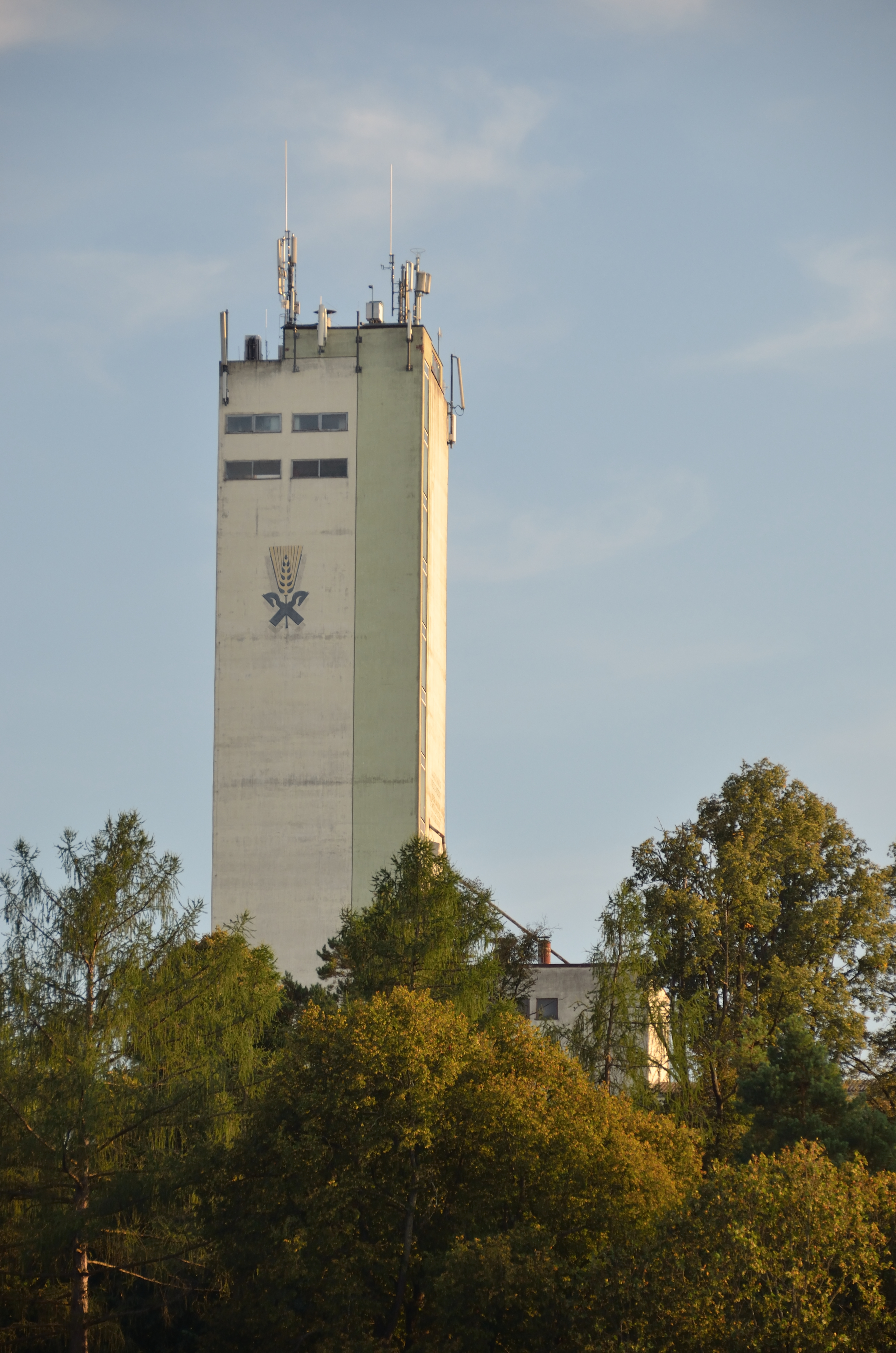 Raiffeisen tower of the Lagerhaus in Drosendorf, Lower Austria.